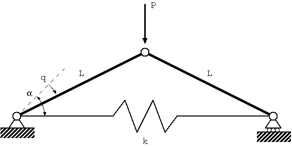 by Khurram Wadee, created with tgif.